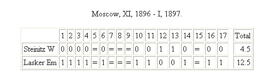 World Chess Championship 1896 Lasker - Steinitz Title Match